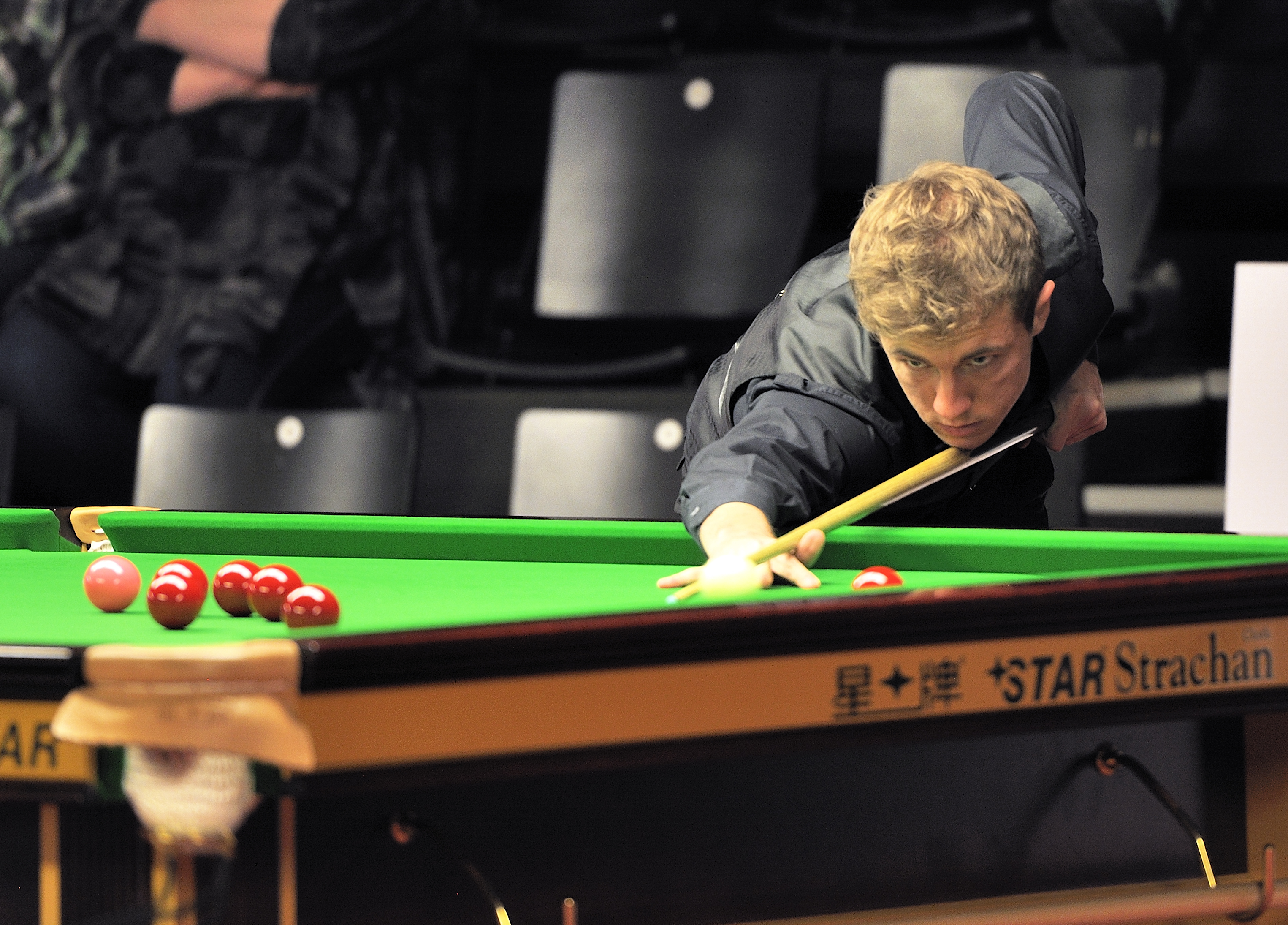 Picture taken in Berlin during the Snooker German Masters in 2014. Jack Lisowski.